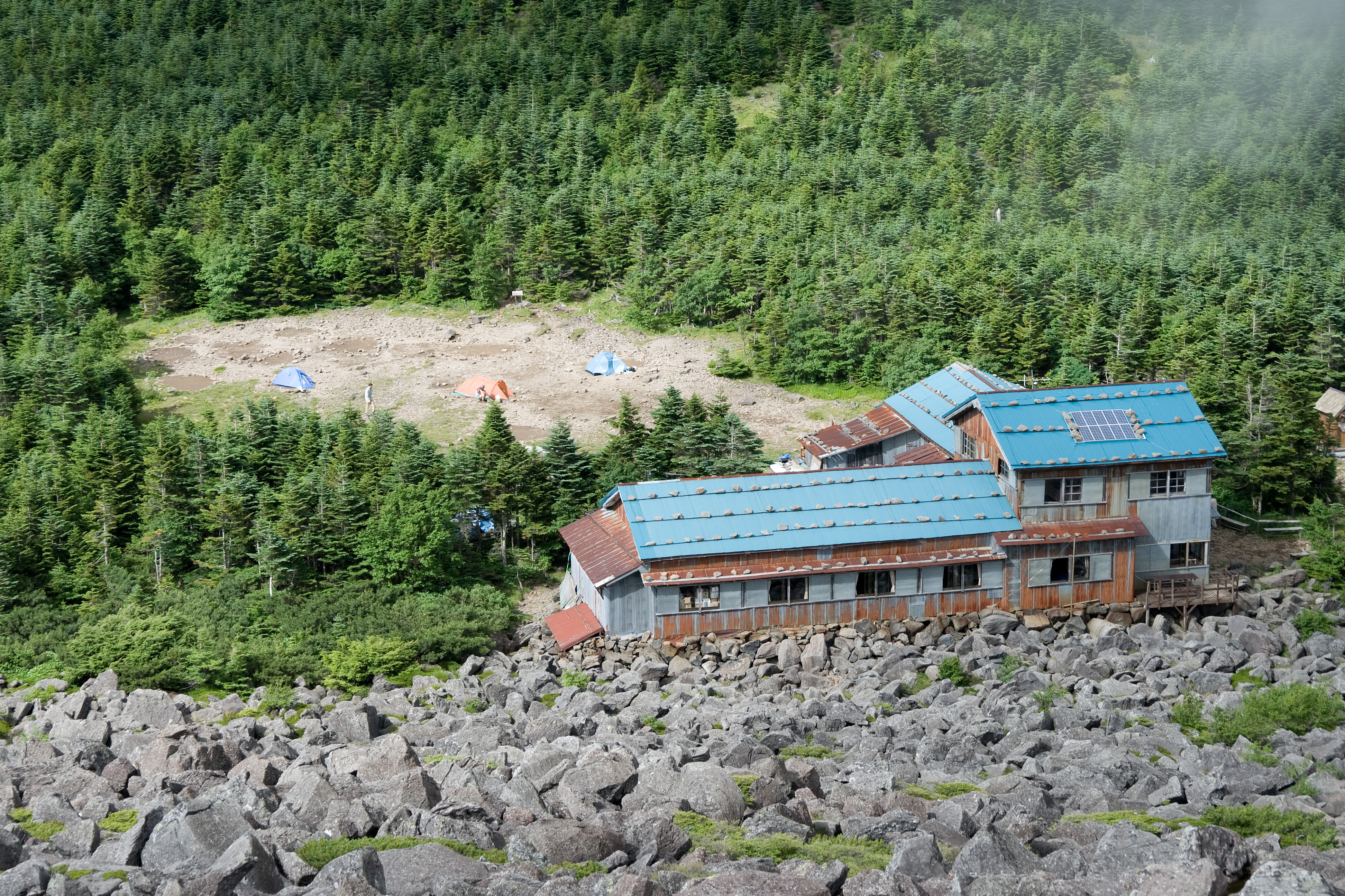 The Seinen-goya ("Seinen Hut") located on the saddle between Mounts Amigasa and Gongen in the Yatsugatake Mountains, Japan